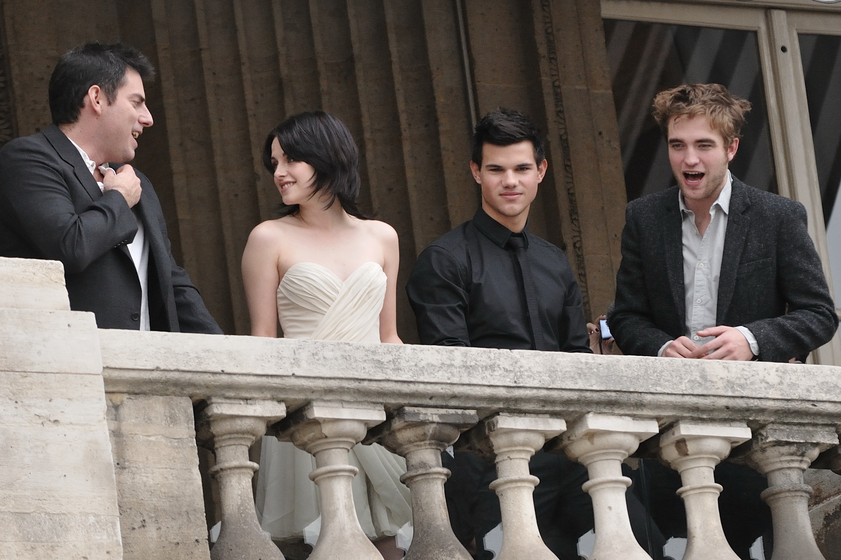 Director Chris Weitz (left), actress Kristen Stewart, actor Taylor Lautner and actor Robert Pattinson (right) attending the Twilight Saga Film New Moon (Twilight Chapitre 2 Tentation) Photocall at the Crillon Hotel in Paris, France on November 10, 2009.